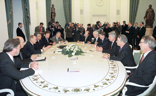 THE KREMLIN, MOSCOW. President Putin meeting with Prime Minister Wim Kok of the Netherlands.